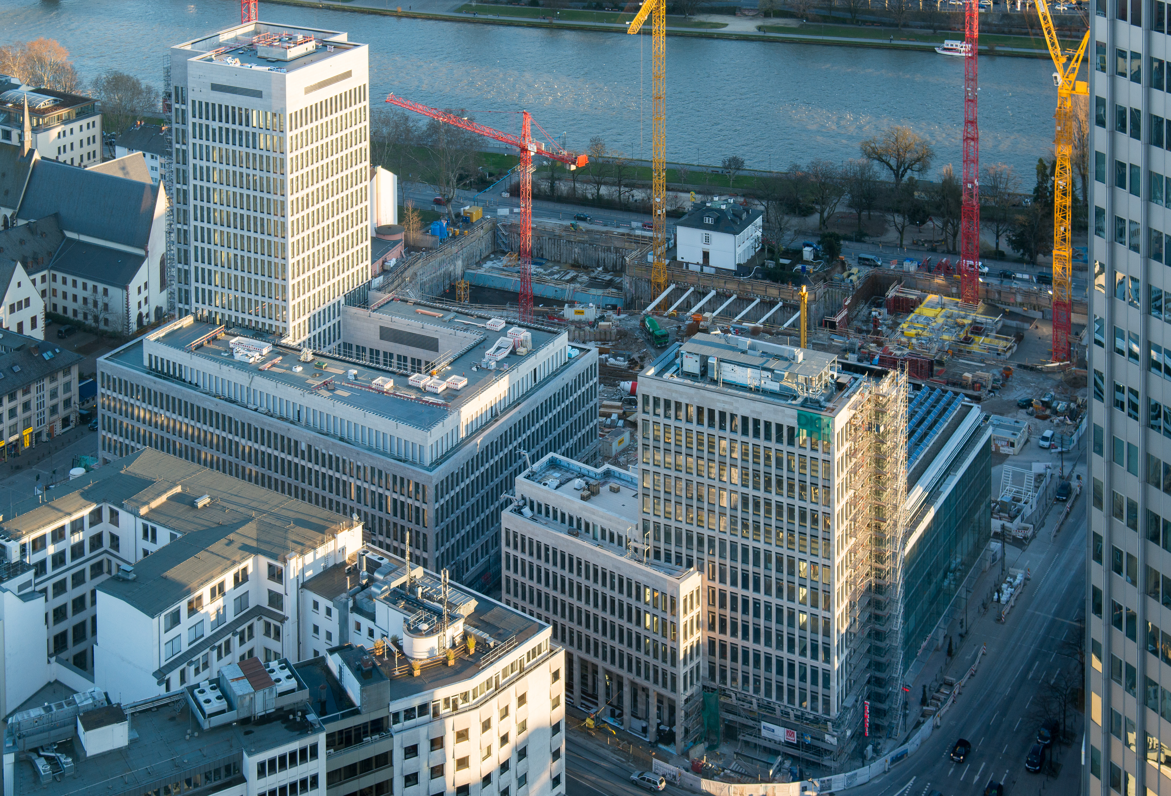 Frankfurt am Main, MainTor redevelopment site, as seen from North-West (February 2014).